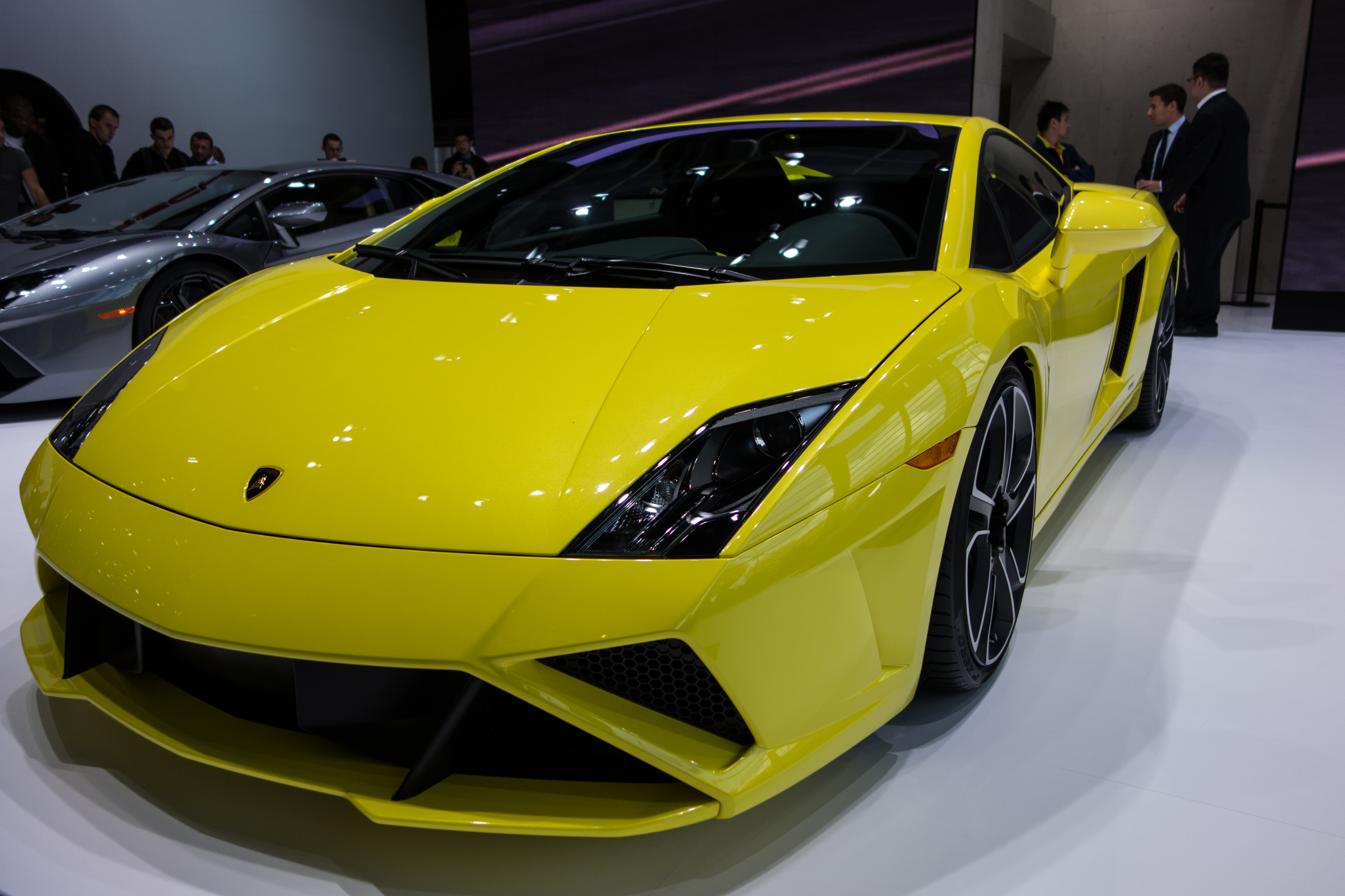 Mondial De L'automobile Paris 2012 | Paris Motor Show 2012